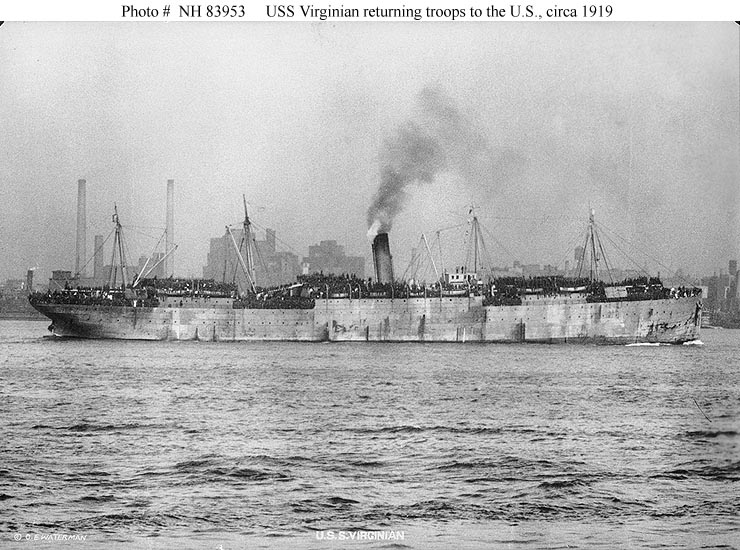 United States Navy troop transport USS Virginian (ID-3920) arriving in the United States carrying American troops returning home from World War I service in Europe